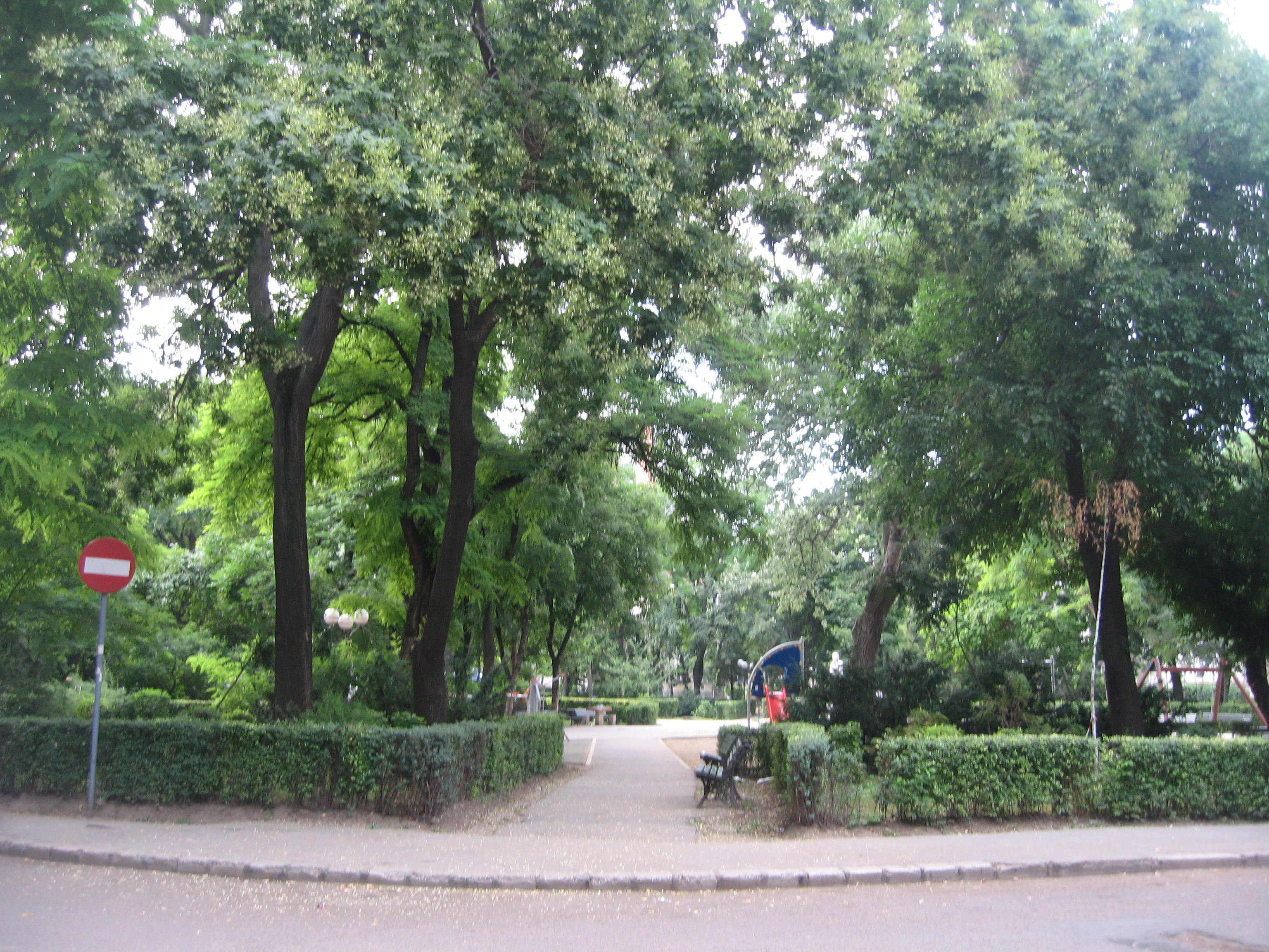 Parcul Horia, Cloşca şi Crişan din Iaşi